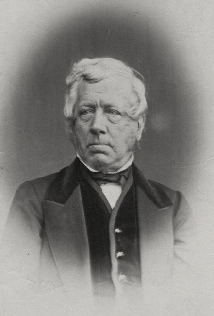 George Howard, 7th Earl of Carlisle (1802-1864) George William Frederick Howard, 7th Earl of Carlisle by Thomas Cranfield, published by Mason & Co (Robert Hindry Mason) albumen carte-de-visite, early-mid 1860s 3 5/8 in. x 2 1/4 in. (91 mm x 57 mm) image size Given by Algernon Graves, 1916 NPG Ax5084